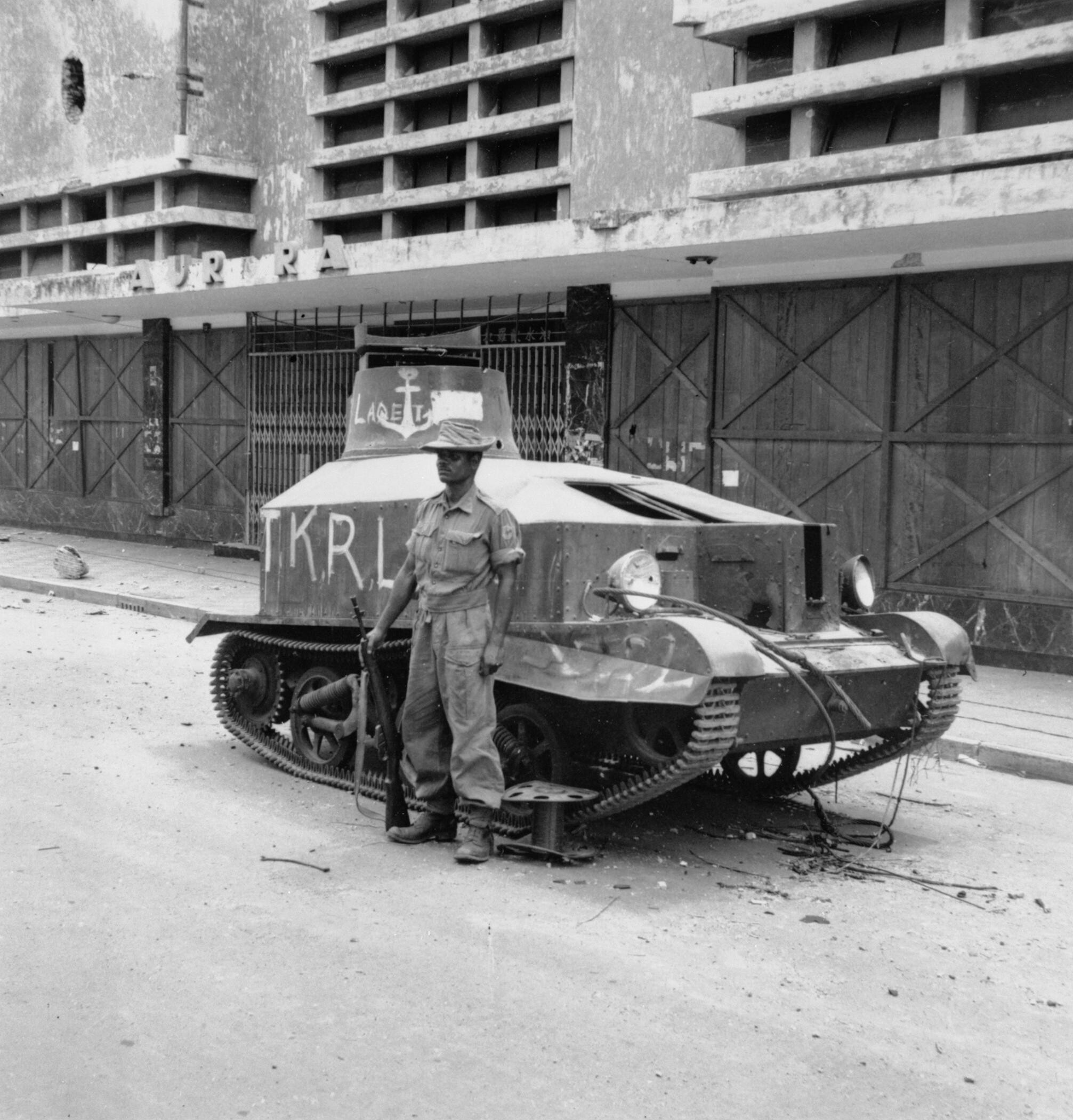 The British occupation of Java. An Indian soldier guards a former Japanese army light tank used by Indonesian nationalists until knocked out by British forces during the fighting in Surabaya (Soerabaja).